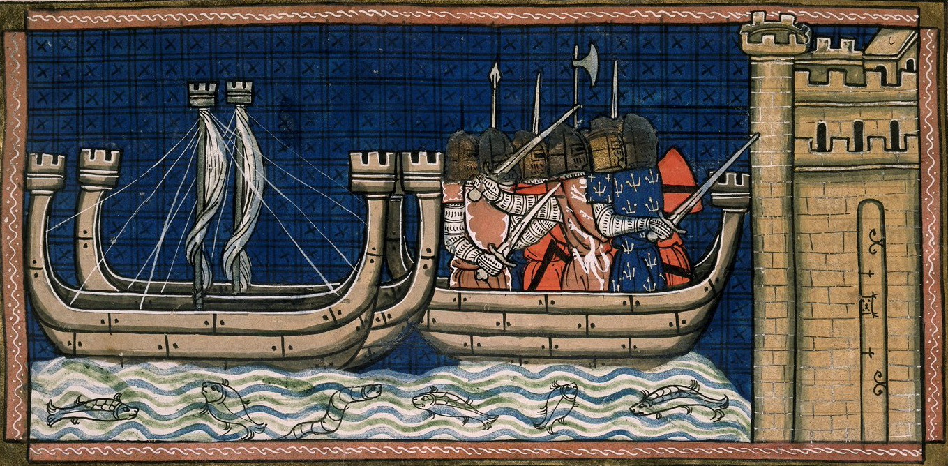 Seventh Crusade: Attack on Damiette 1249 (British Library, Royal 16 G VI f. 409v)